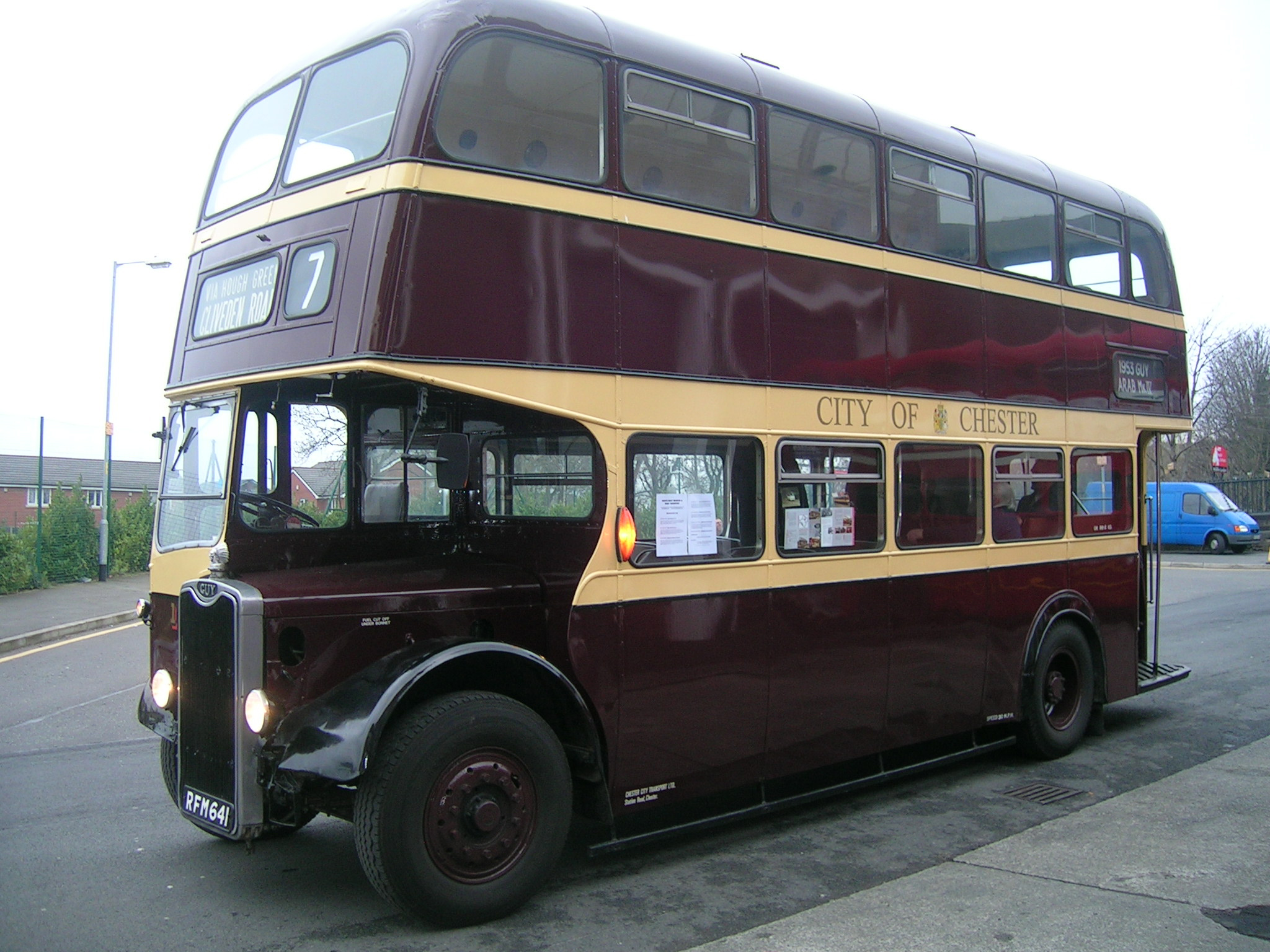 Chester Corporation 1953 Guy Arab IV with Massey bodywork, seen here outside the Museum of Transport in Manchester on Saturday 15th March 2008.